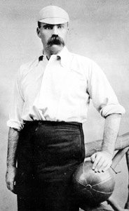 Norman Coles Bailey (1857-1923, England international footballer